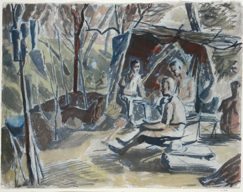 The Mt Officer - 1st Bn, Essex Regt, at Gallabat image: A tent in a wooded area. A soldier with a moustache is sitting under the shade of the tent. Two others are sitting in the sunshine in front of the tent. One has a pith helmet at his side. In the background other soldiers are sitting on the ground among the trees.